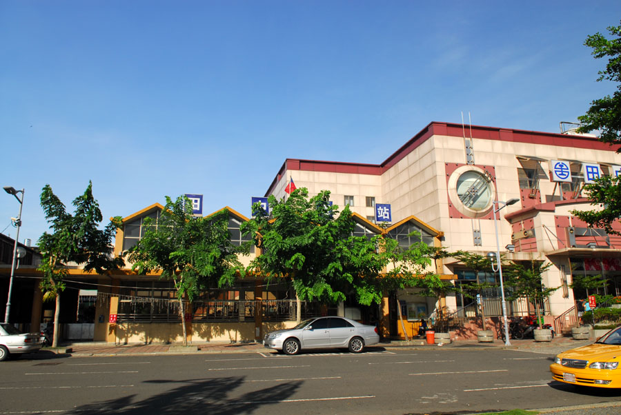 TianJhong Station is a local train station of Taiwan's Western main rail line. It's the main station of TianJhong Town, ChangHua County. This photo shows the old station building next to the new one.